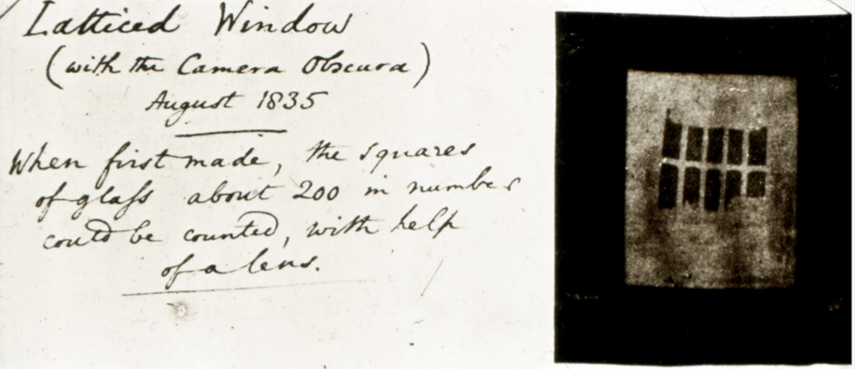 Talbot, Latticed window, Lacock Abbey. The first negative.